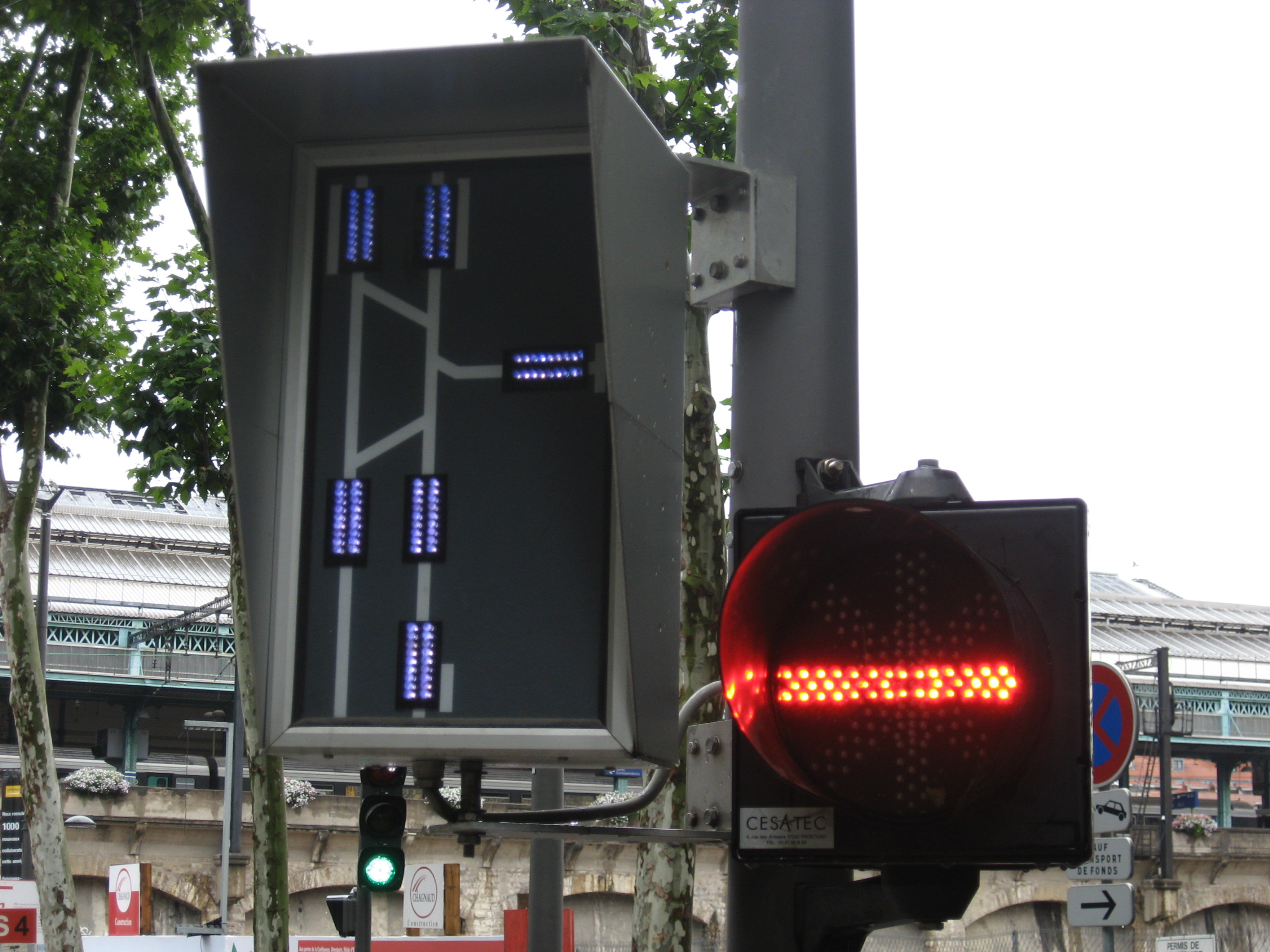 Tram signal at the south side off the Lyon Perrache station. The left signal shows the occupation off the tracks. Tram line 2 terminates at a sidetrack, while tramline 1 go's trough.